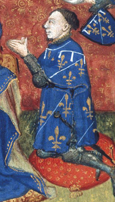 Jean d'Orléans, count of Dunois, detail of a medieval miniature